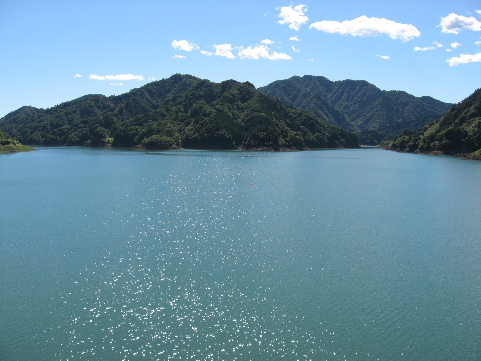 Lake-miyagase seen from Yamabiko-bridge (Yamabiko-ōhashi), kanagawa prefecture, Japan.